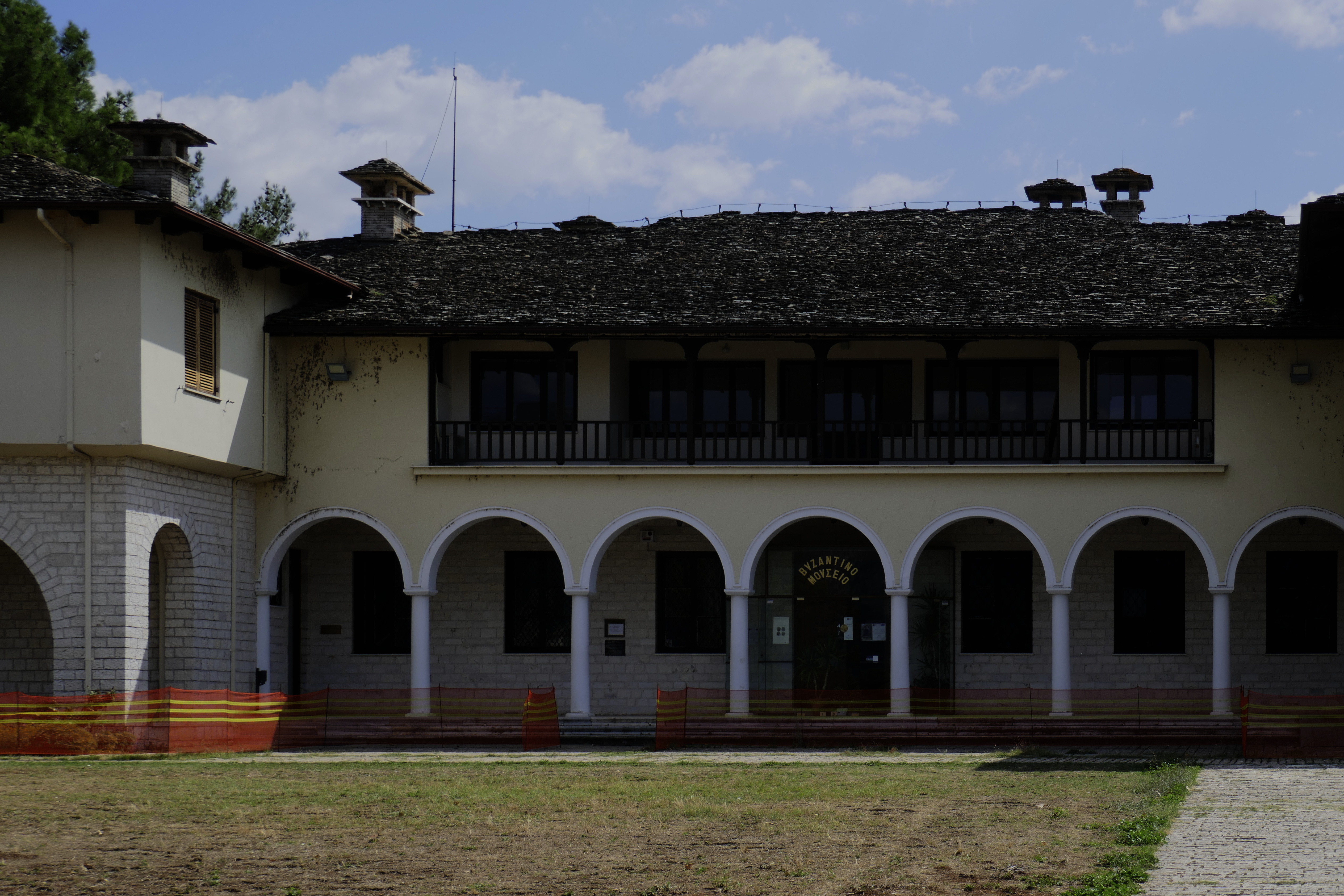 Part of the Ethnic Museum of Ioannina